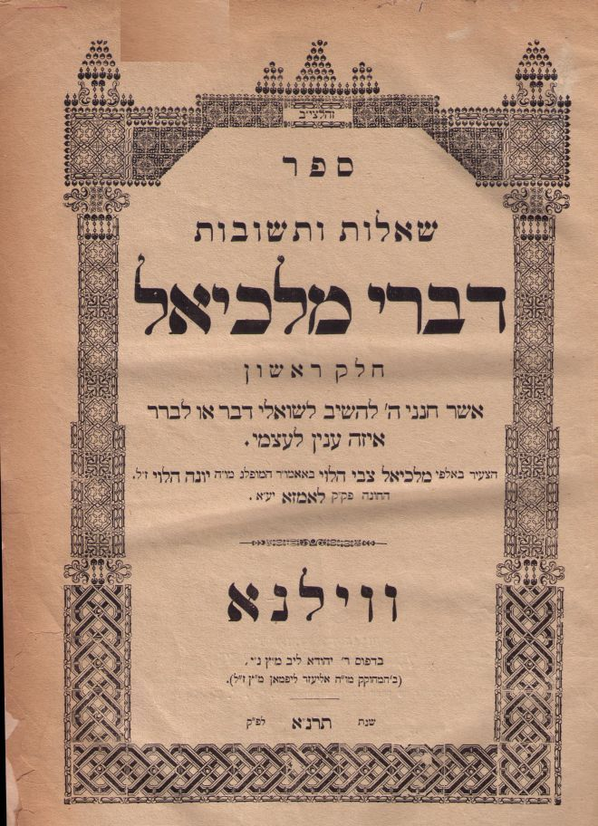 Divrei Malkiel Responsa, 1st ed. 1891